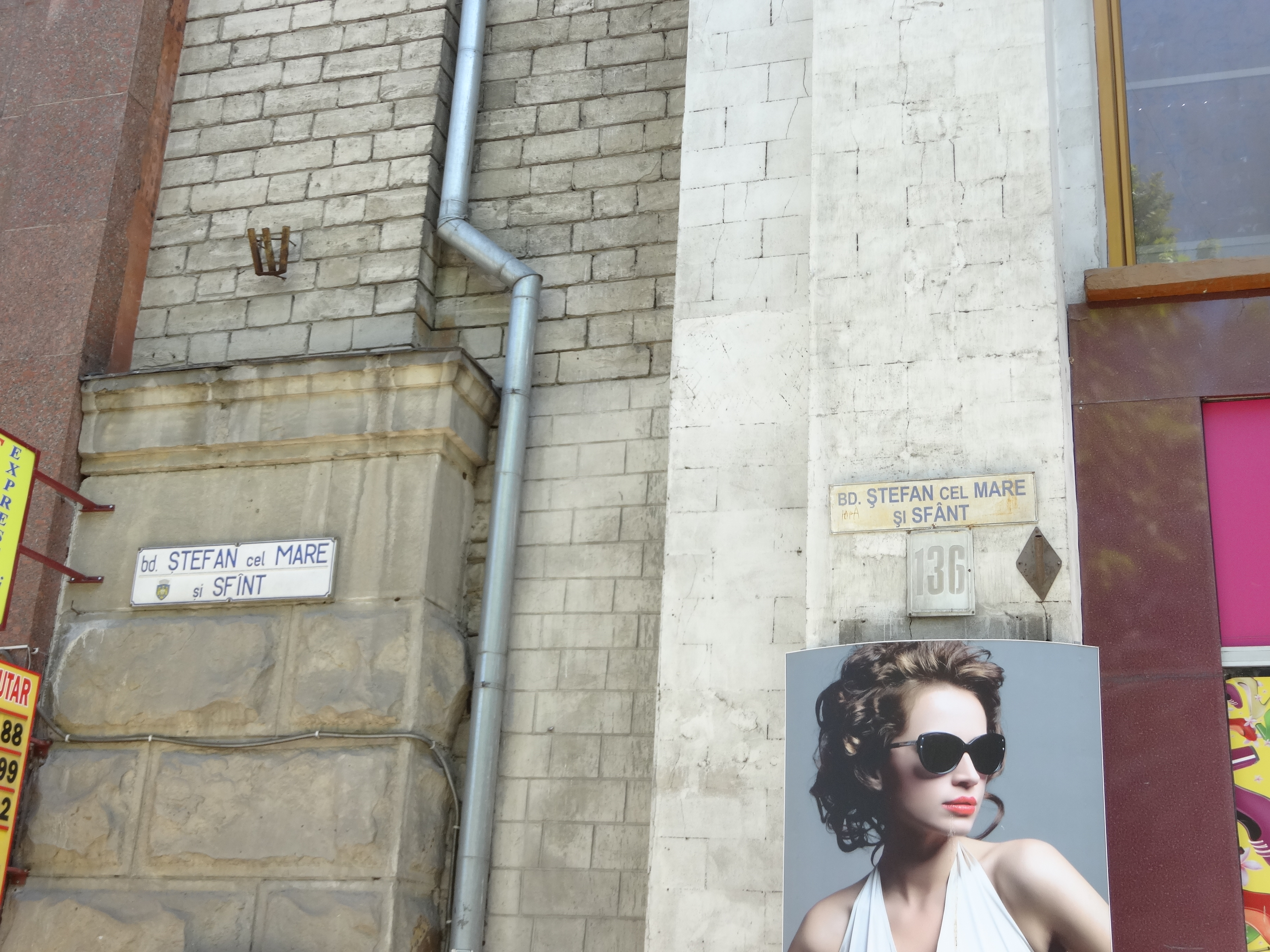 Street signs showing the new Romanian orthography with Â and Ş on the right side and the old Romanian orthography with Î and Ș on the left